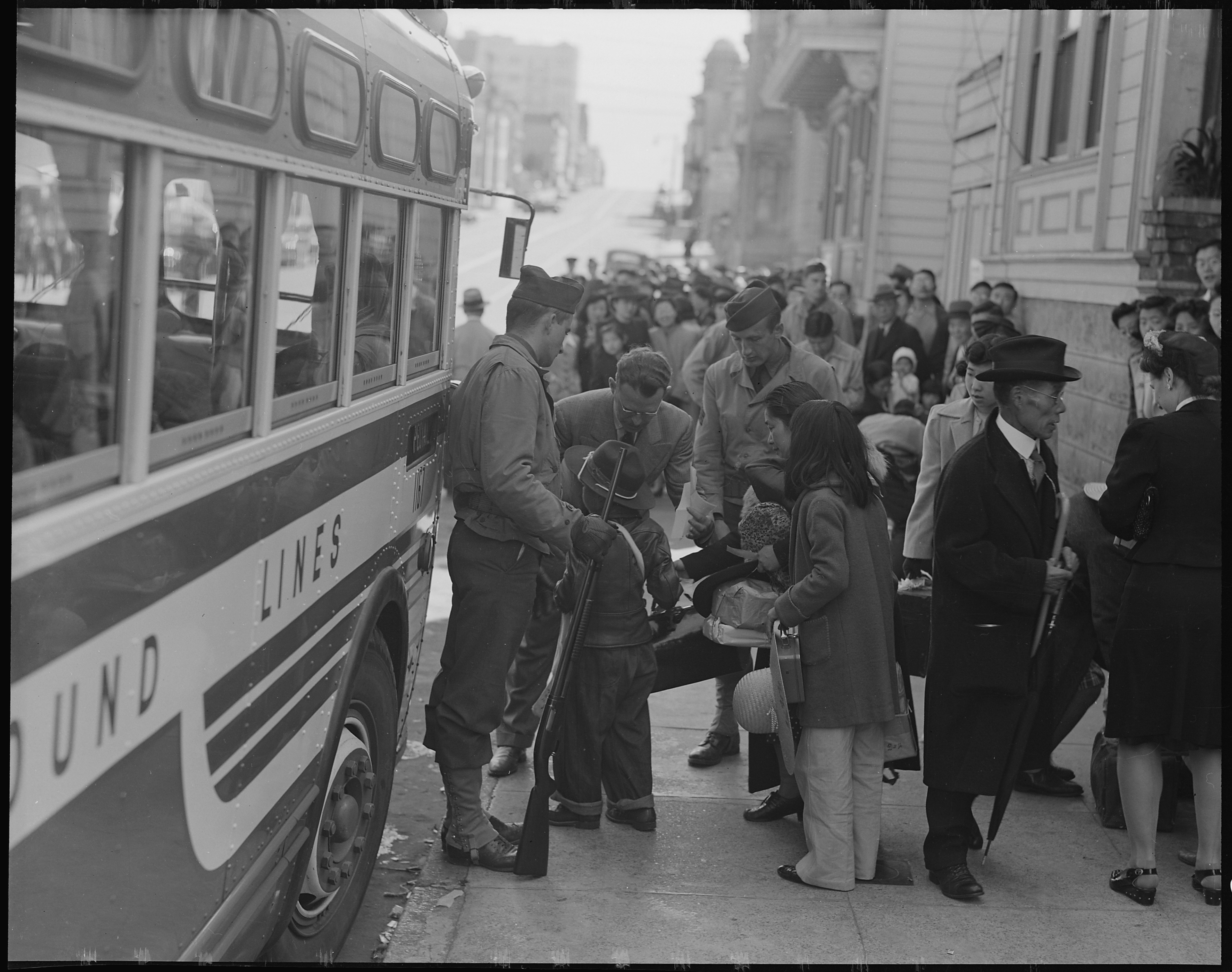 Scope and content: The full caption for this photograph reads: San Francisco, California. The Japanese quarter of San Francisco on the first day of evacuation from this area. About 660 merchants, shop-keepers, tradespeople, professional people left their homes on this morning for the Civil Control Station, from which they were dispatched by bus to the Tanforan Assembly center. This photograph shows a family about to get on a bus. The little boy in the new cowboy hat is having his identification tag checked by an official before boarding.